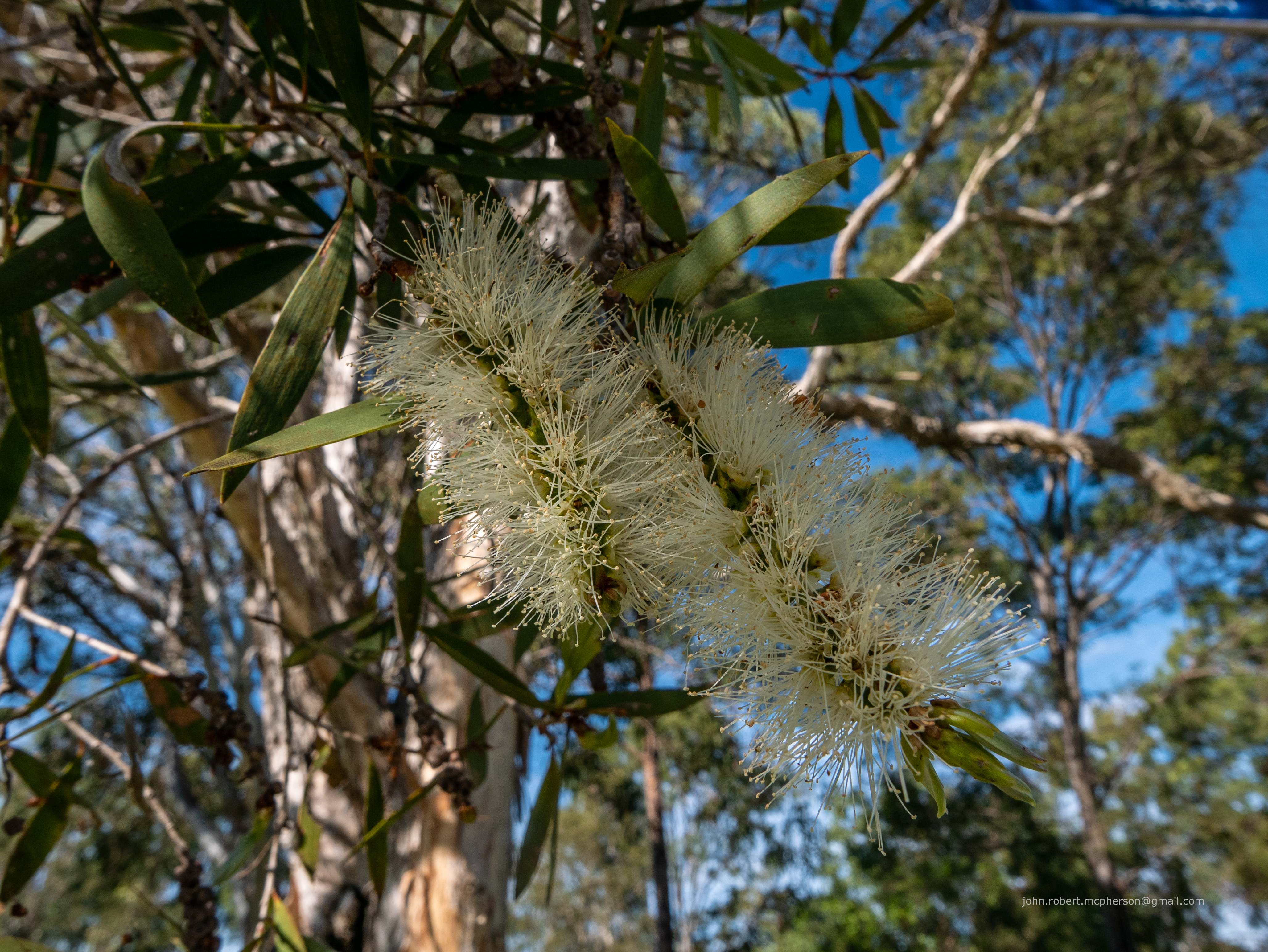 Melaleuca quinquenervia, the paper-barked tea-tree, is common on the floodplains and wet areas of 7th Brigade Park. It is a small to medium sized tree with thick, papery persistent bark. Flowers are usually cream and though sometimes pink or red flowering individuals can be found. The tree is a favourite host for Ficus rubiginosa and Ficus virens hemi-epiphyes, which in time grow and envelope the host.